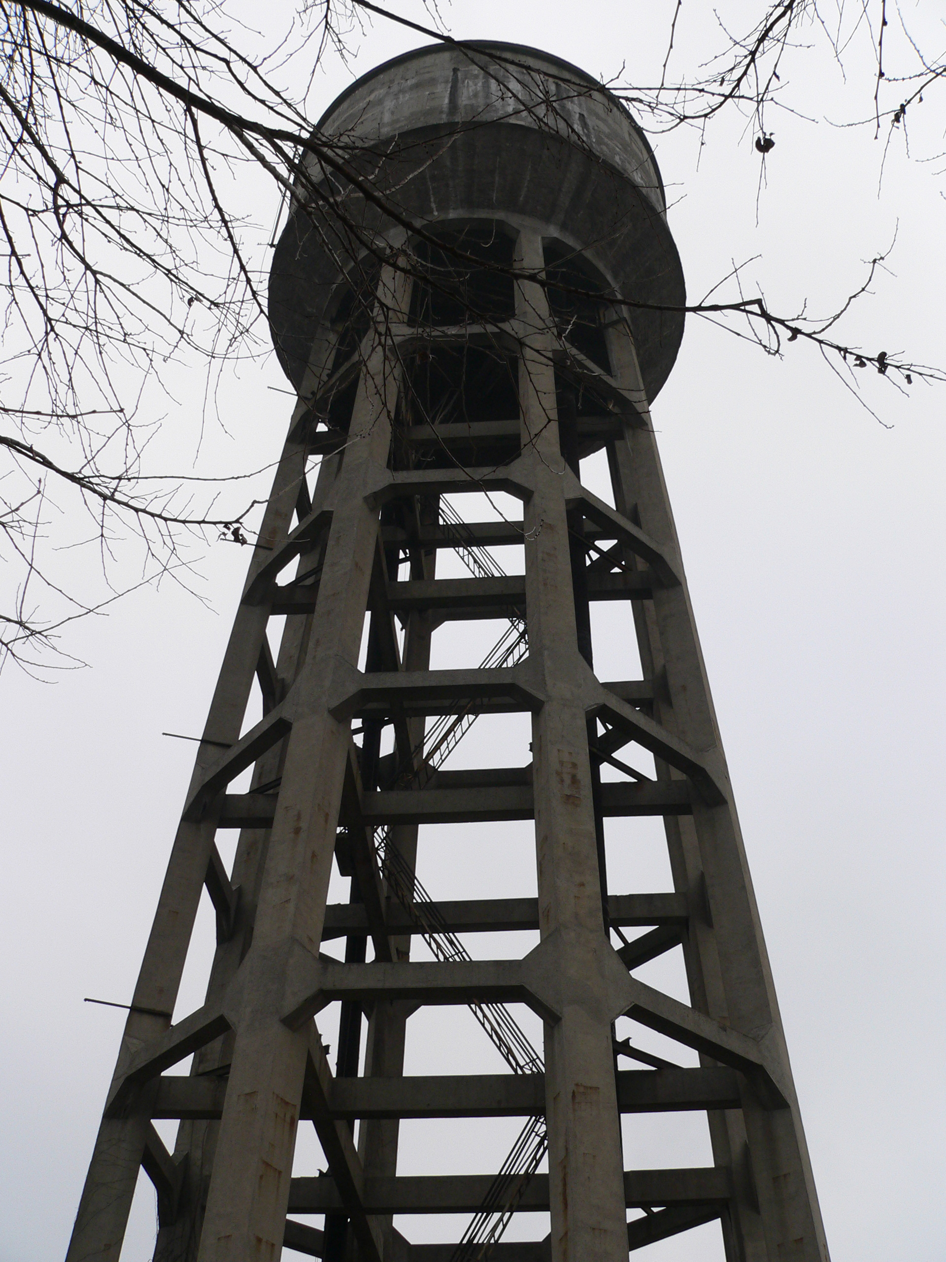 The water tower is an elevated water tank with the task of conveying large quantities of groundwater to be used in the steelmaking process. One of the primary reasons for the establishment of Falck and other metalworking industries in Sesto San Giovanni was the great need for and availability of water for the metalworking plants. Dated around the mid 20th century, this is one of the towers which could be encountered in each of the four factories for Falck production. This building is located at the far northern end of the Unione plant in the Falck areas and is an important visual landmark in the urban setting. Its name “Torre Unione” emphasises its importance as an icon of Sesto’s working-class culture. The building is placed in a brownfield area. It is part of the project of Sesto San Giovanni per l'UNESCO, as one of the buildings of the application for inscription on the world heritage list for humanity in the evolving cultural landscape category. This is a photo of a monument which is part of cultural heritage of Italy.